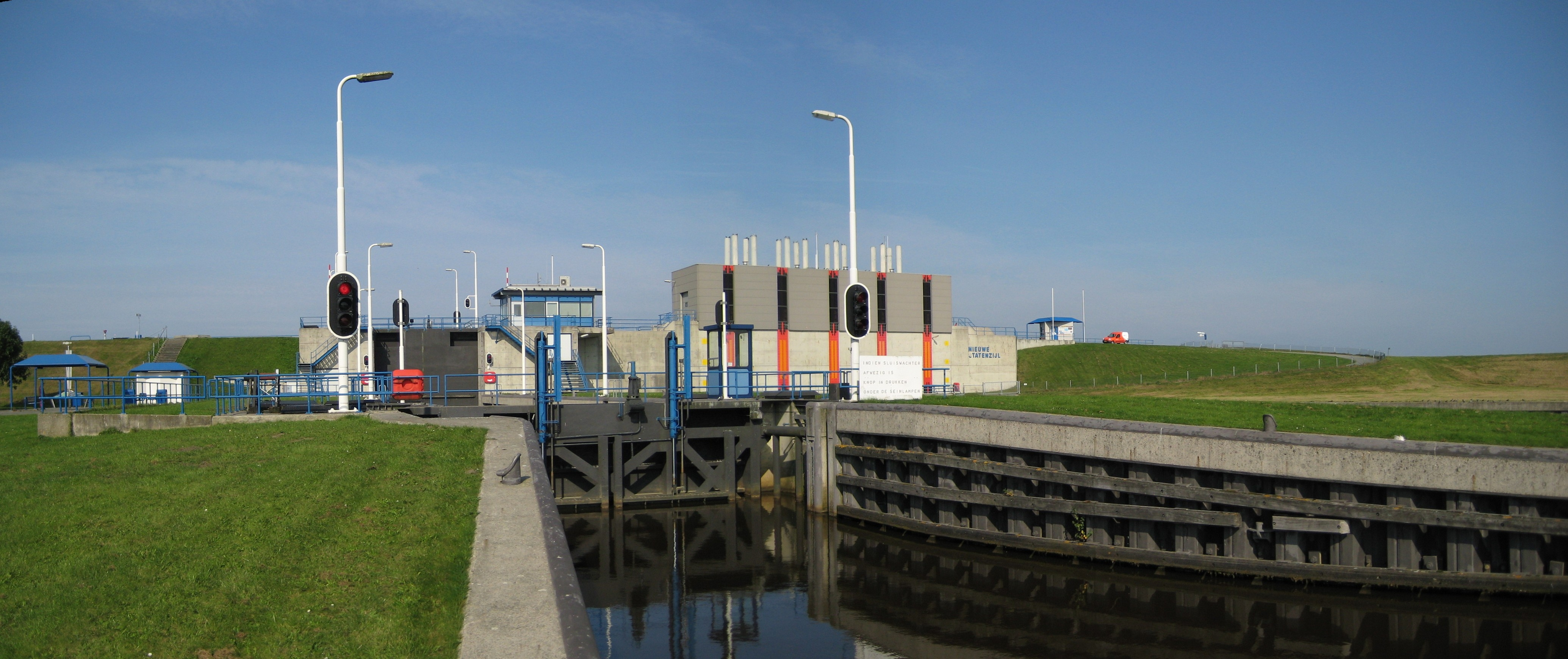 The sluice of Nieuwe Statenzijl in the Dutch province of Groningen, The Netherlands